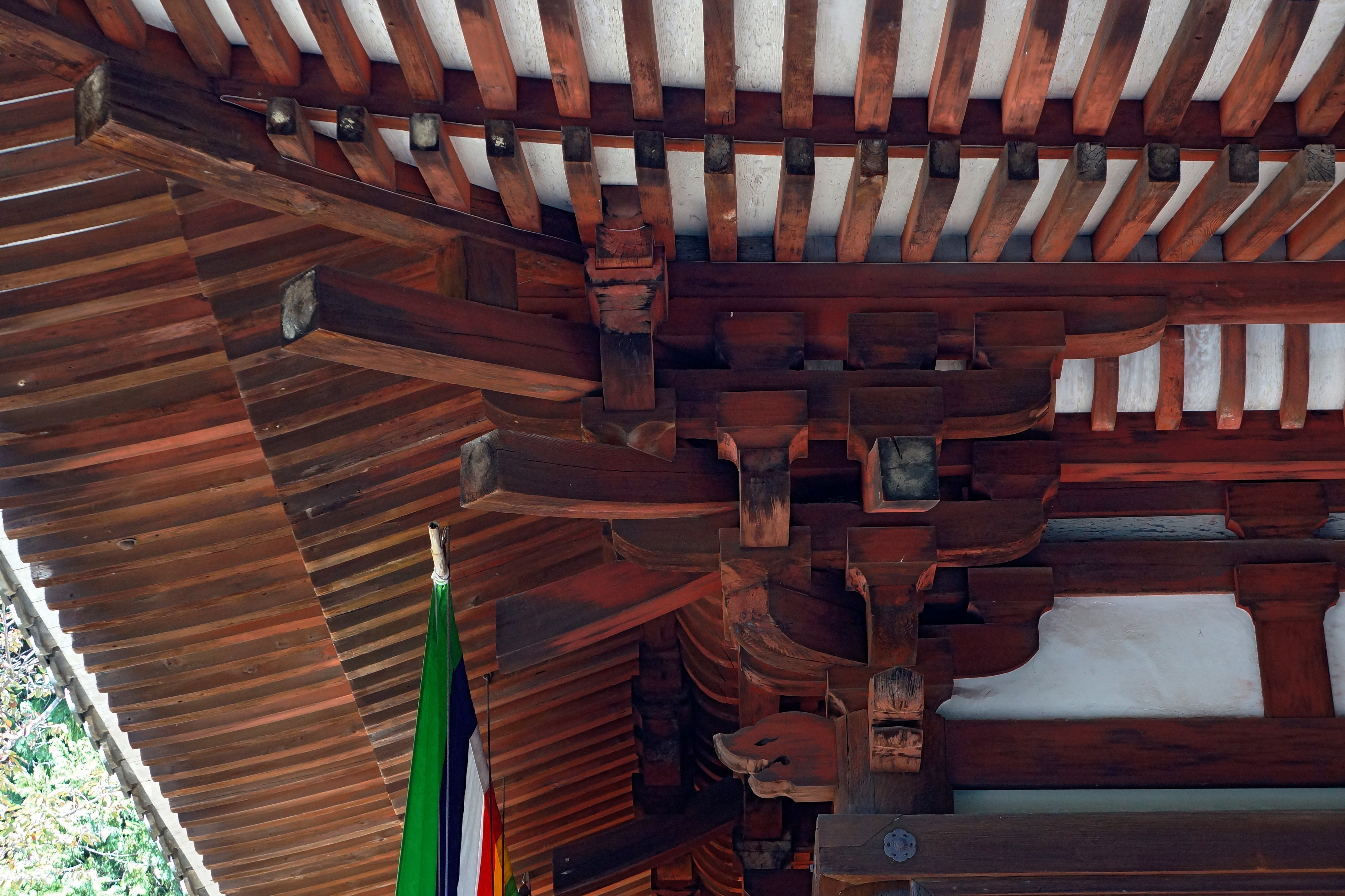 Ryōsen-ji (Nara)'s Main Hall is Japan's National Treasure in Nara, Nara prefecture, Japan. It was built in 1283.